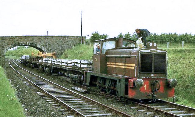 Broken-down train at Ballyrobert – Northern Ireland Railways had three diesel-hydraulic locomotives used mainly on permanent-way trains. They were prone to overheating. The driver is topping up No. 1’s radiator from an emergency supply of water carried on board.